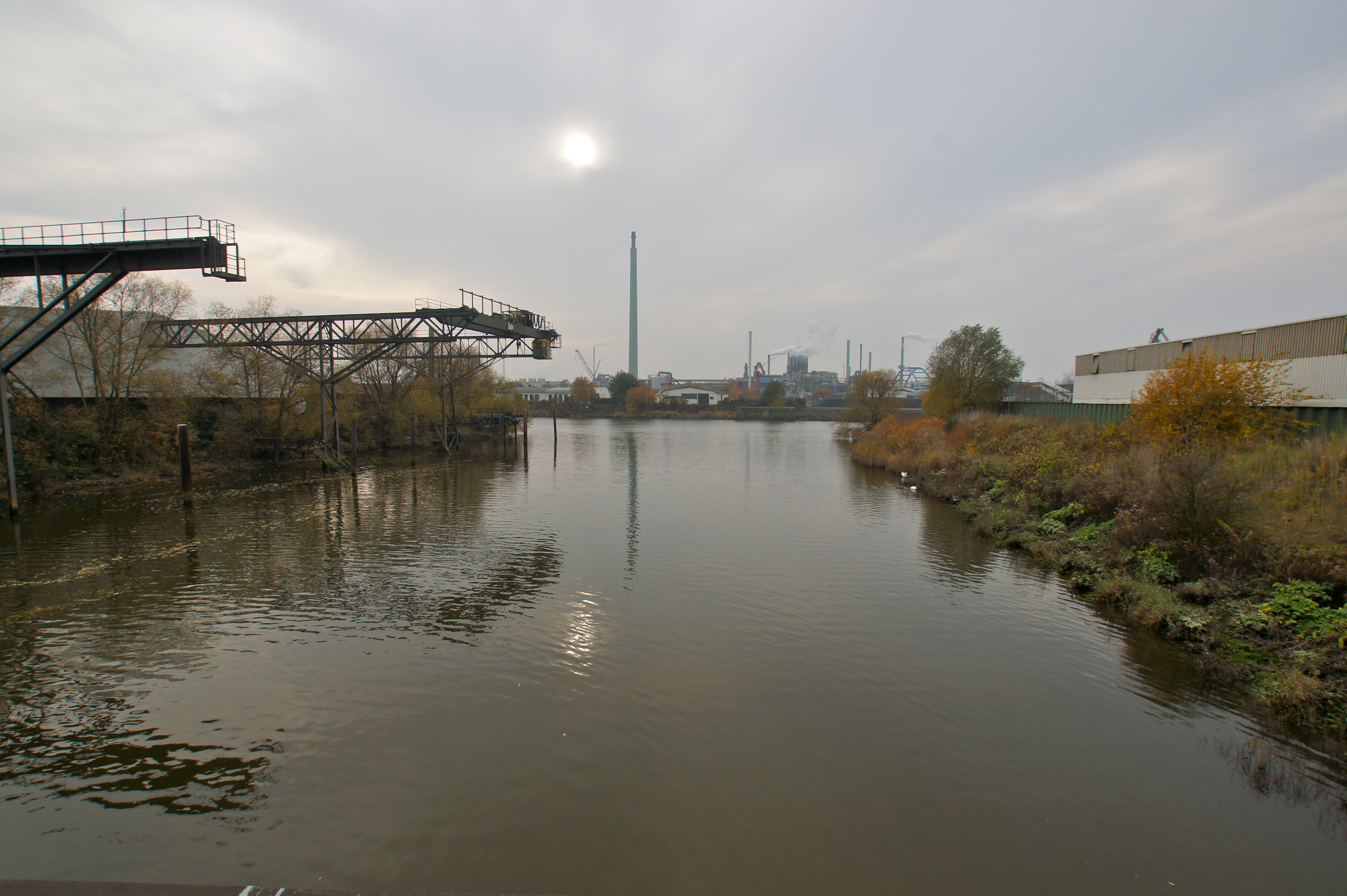 Hamburg (Veddel), Germany: The Moorkanal in direction of the Müggenburger Kanal and the Aurubis plant